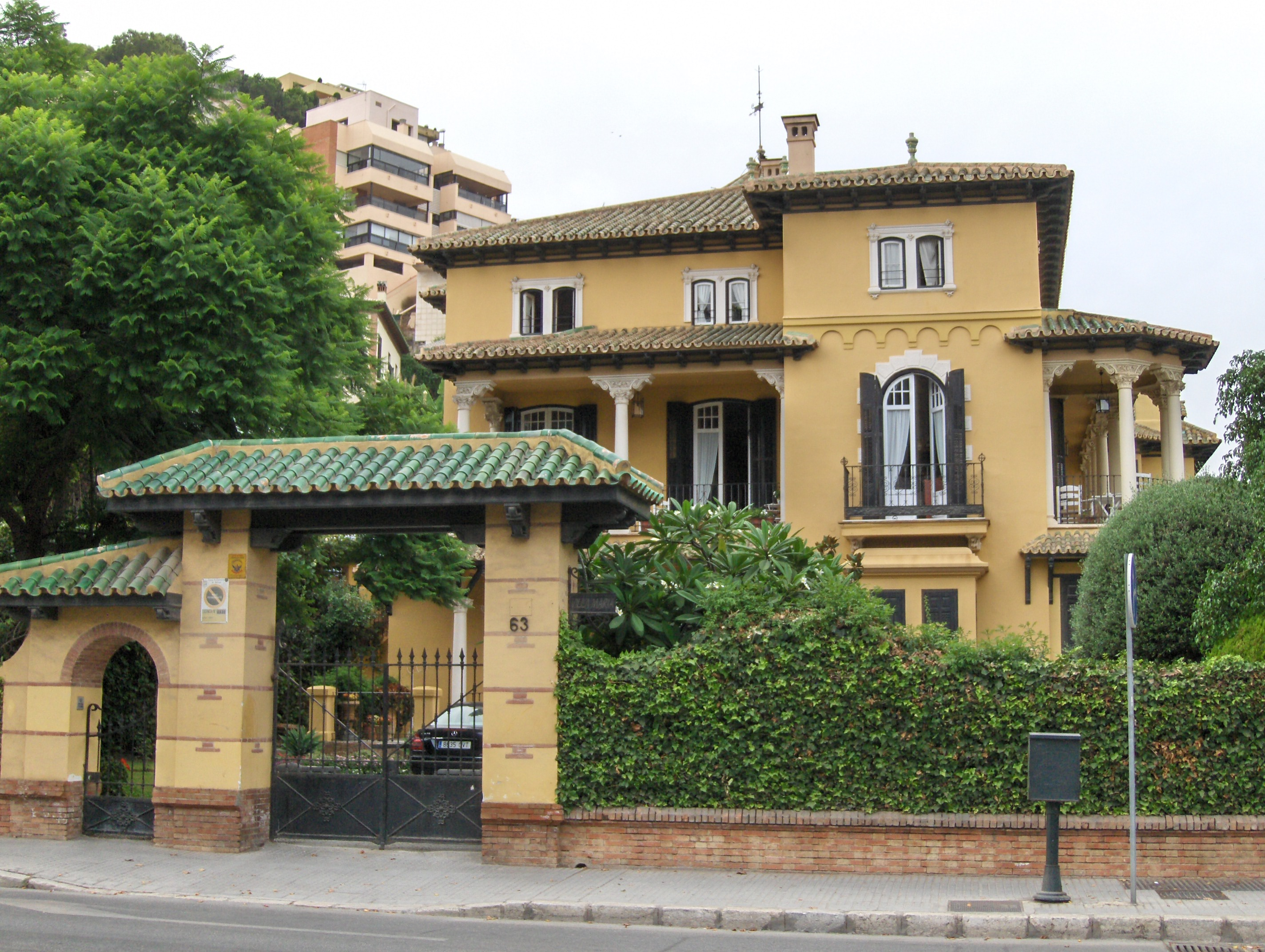 Villa María, Málaga.